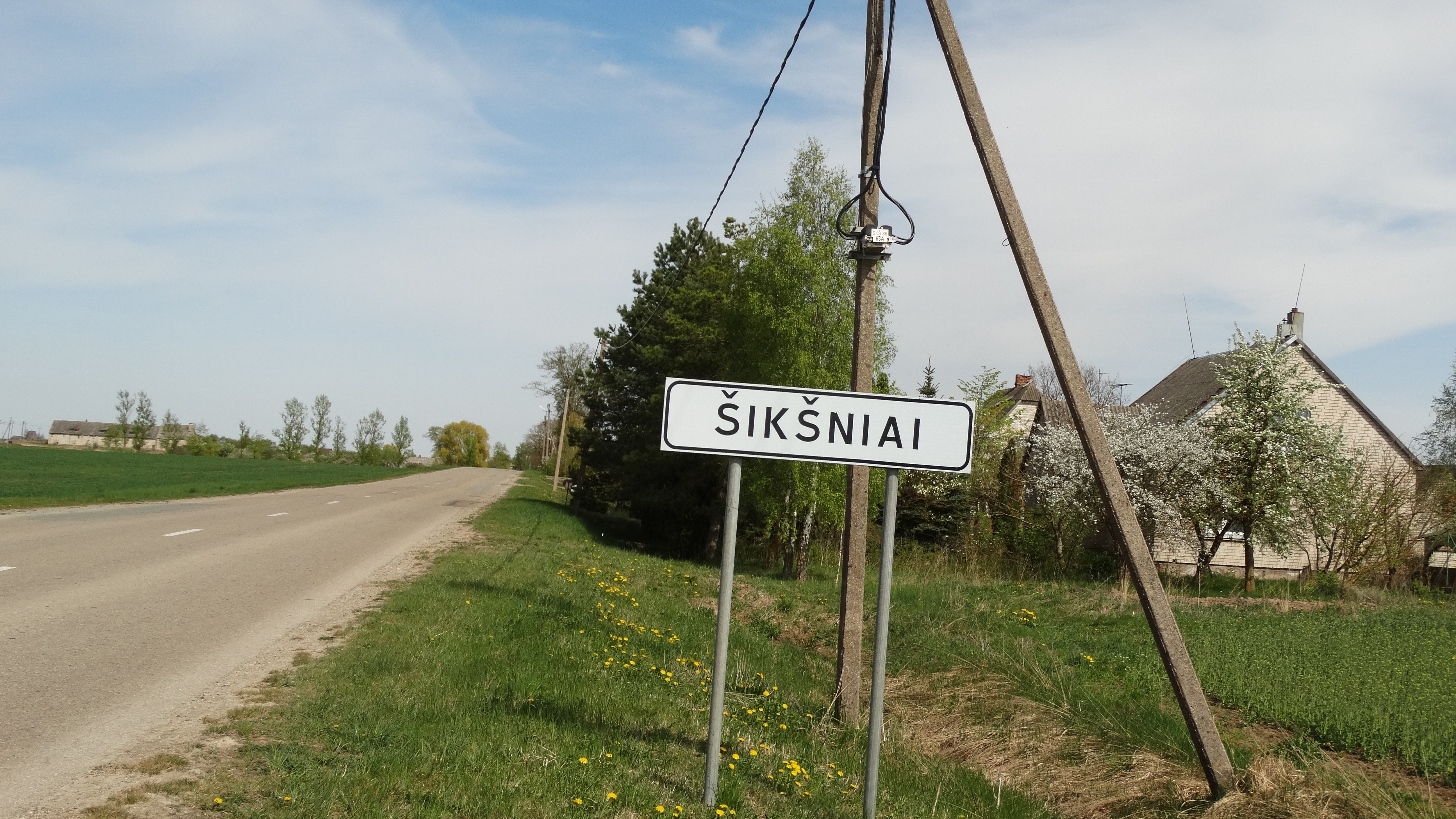 Šikšniai, Pakruojis district, Lithuania